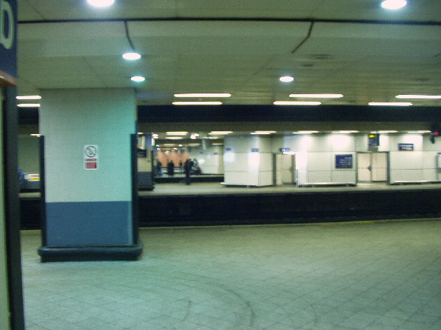 Birmingham New Street. A pseudo-regressive image of Birmingham's main station